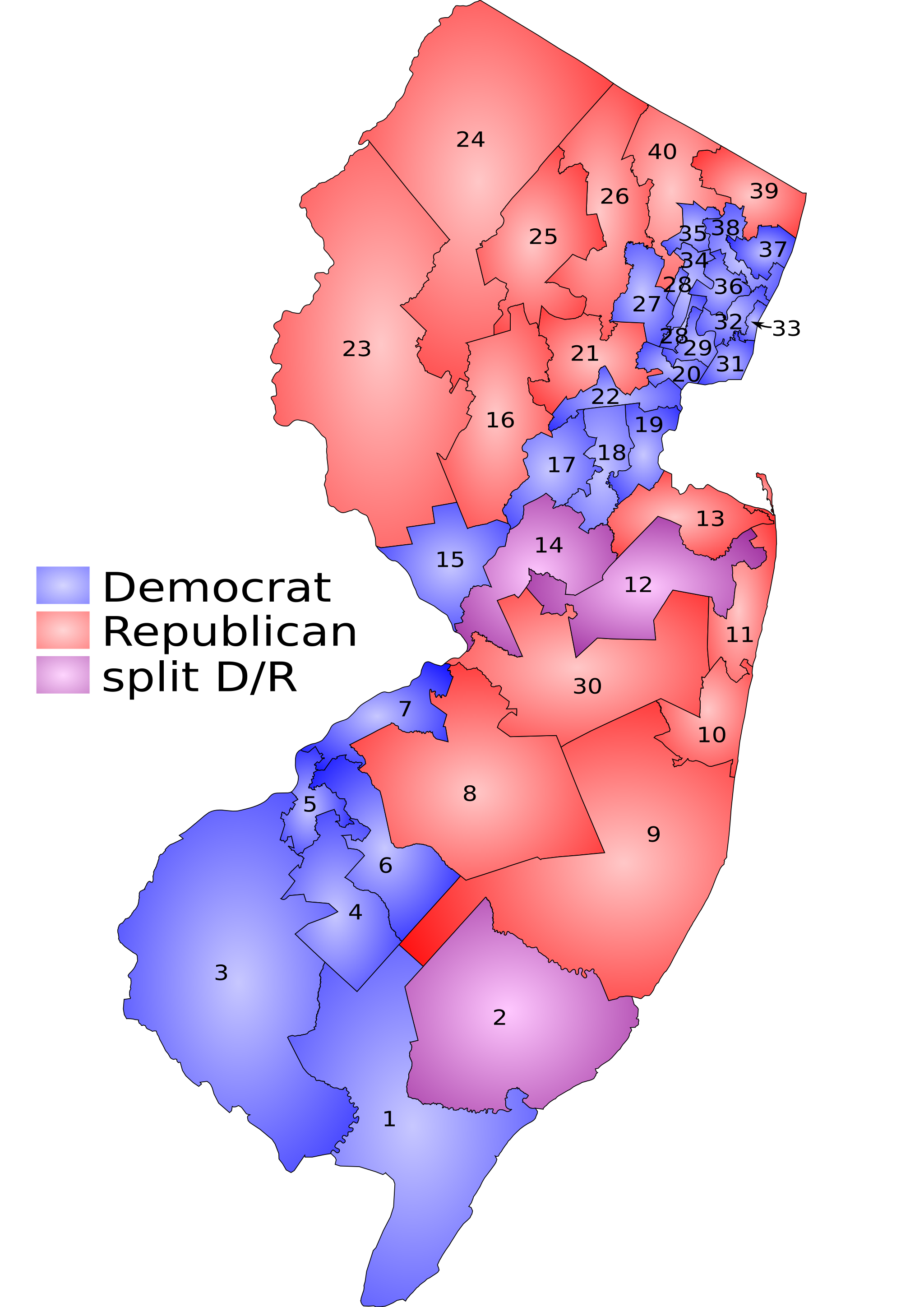 New Jersey state legislative districts, based upon 2000 U.S. census, went into effect 2001. Colored by party of NJ State Assembly representatives for 2006 to 2007 term. Sources: Outline maps came from: [1], believed ((PD-ineligible)). Converted to SVG, edited in Inkscape. Numbering as per [2] (PDF). Colored according to data here: New Jersey General Assembly, 2006-2008 term SVG source code: Image:New_Jersey_Legislative_Districts_2001_by_2006_2007_assembly_party.svg